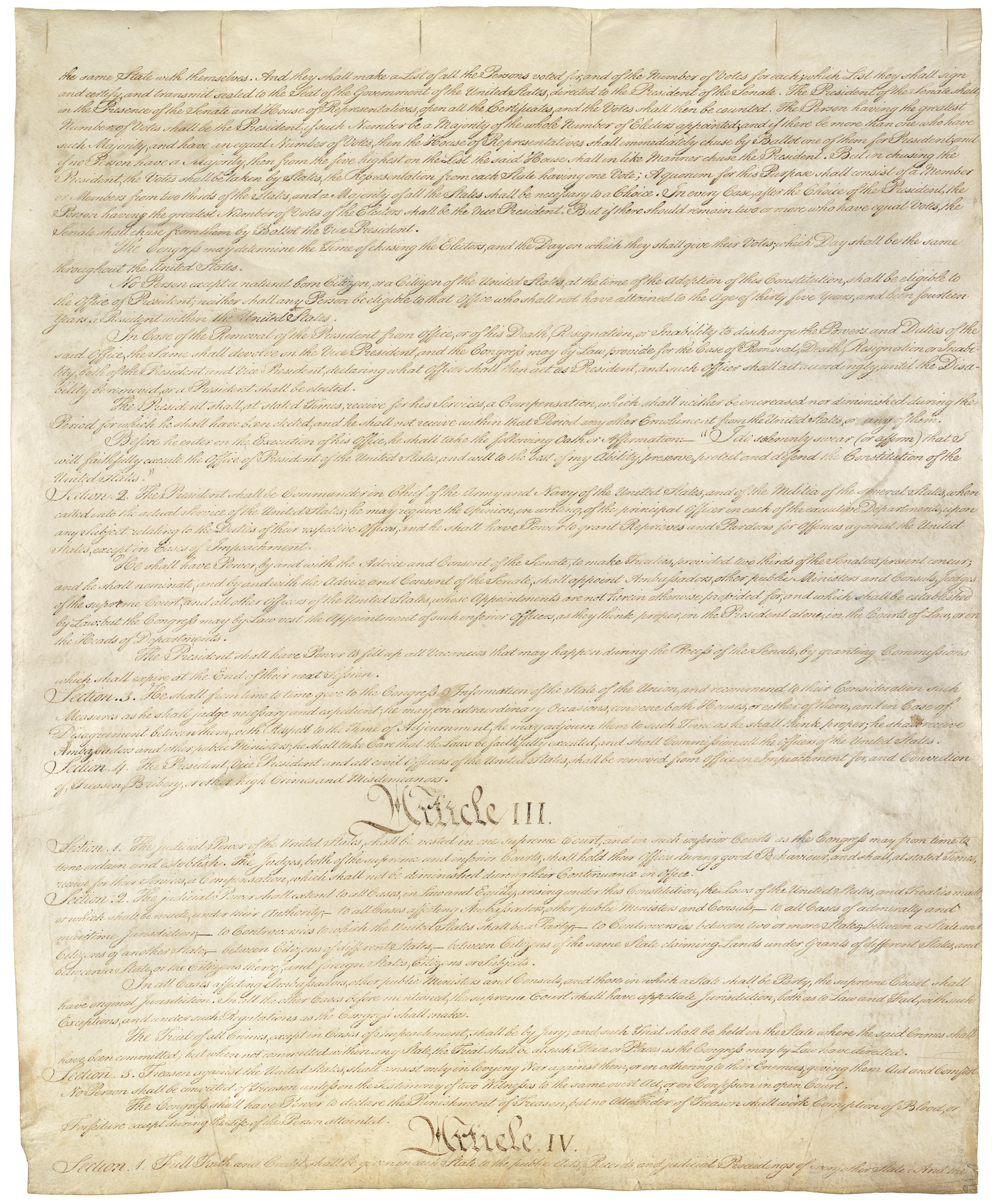 Third page of Constitution of the United States